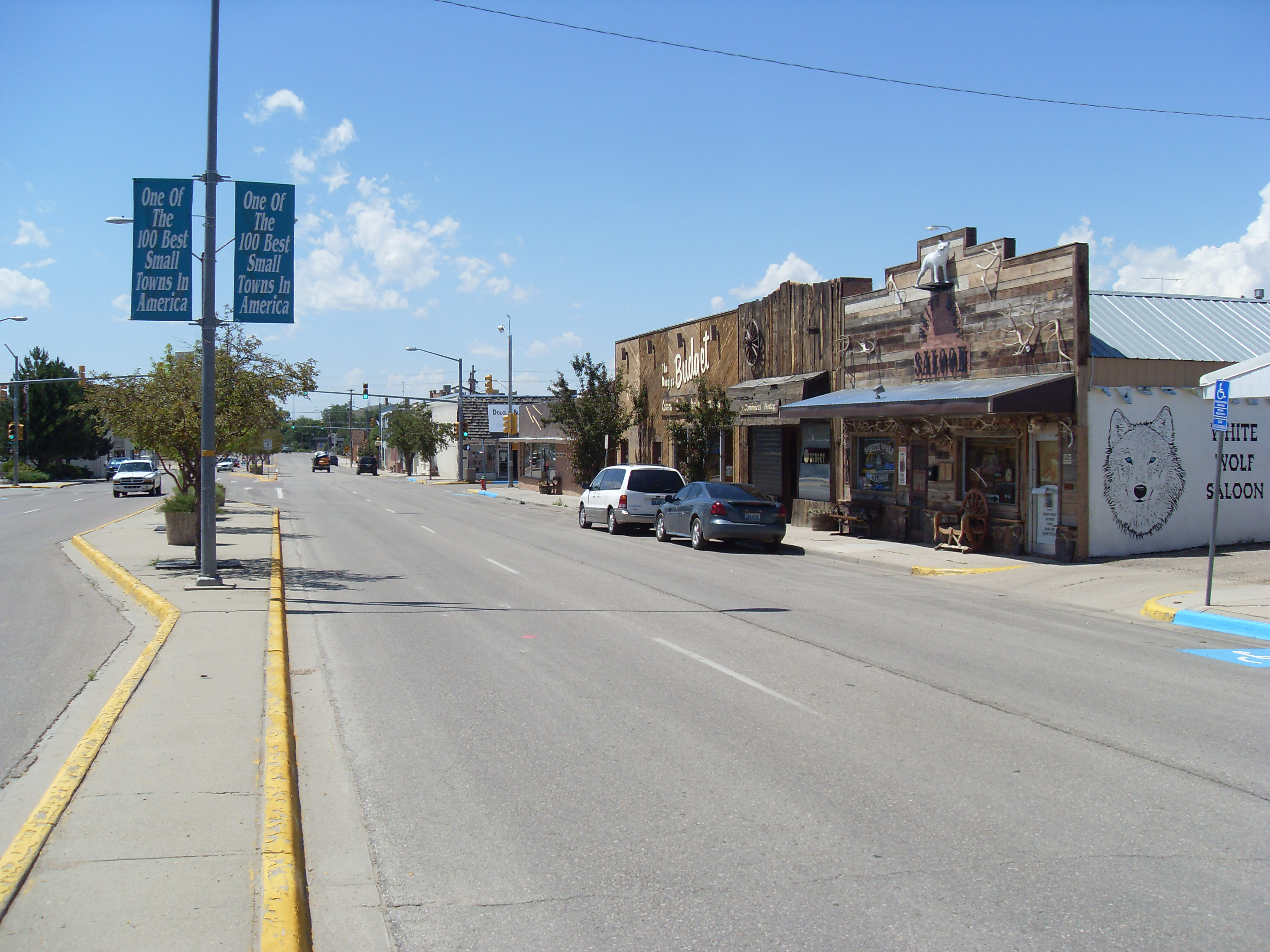 Center Street in Douglas Wy, view to the west, white wolf saloon on the right